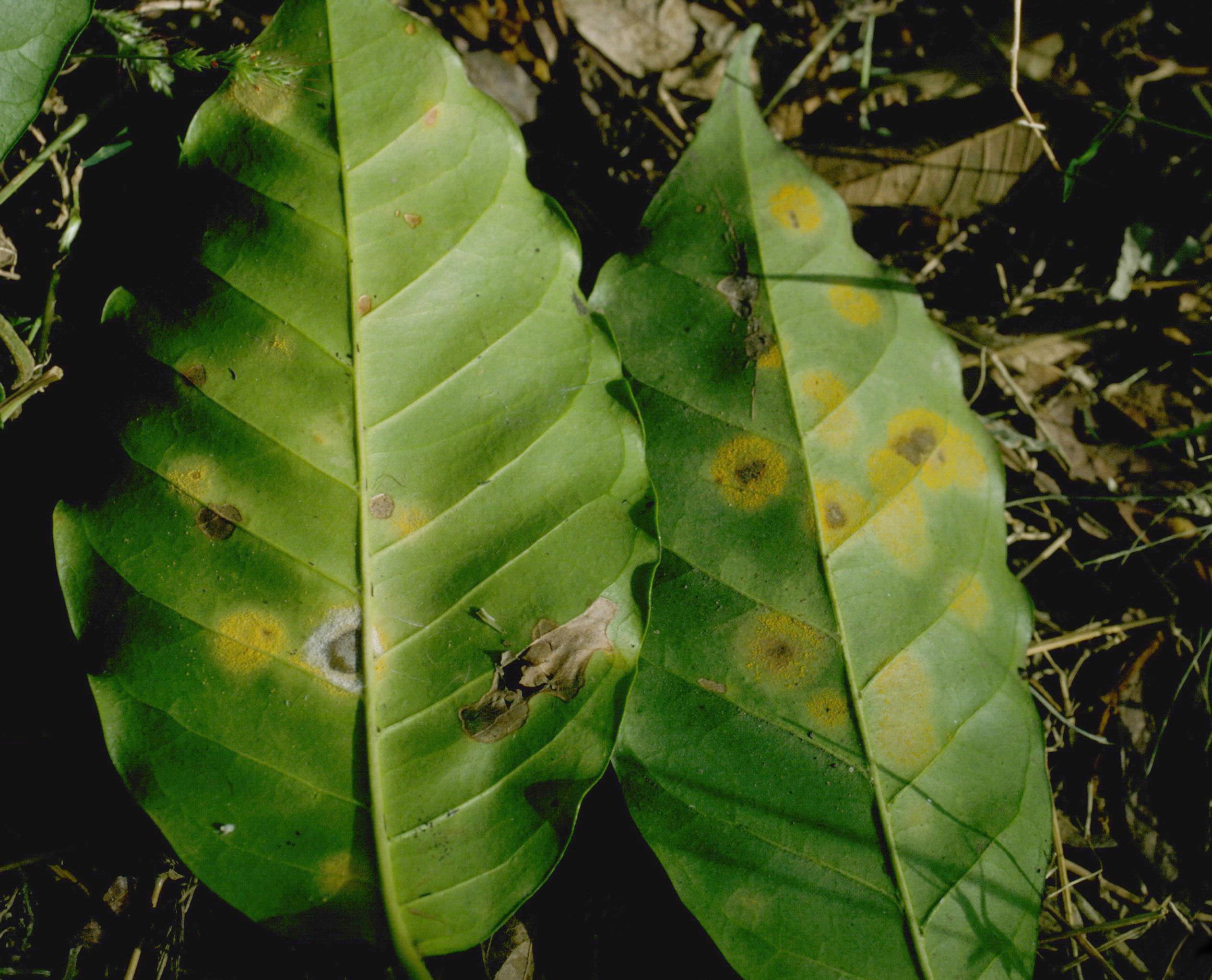 Hemileia vastatrix, causing coffee rust